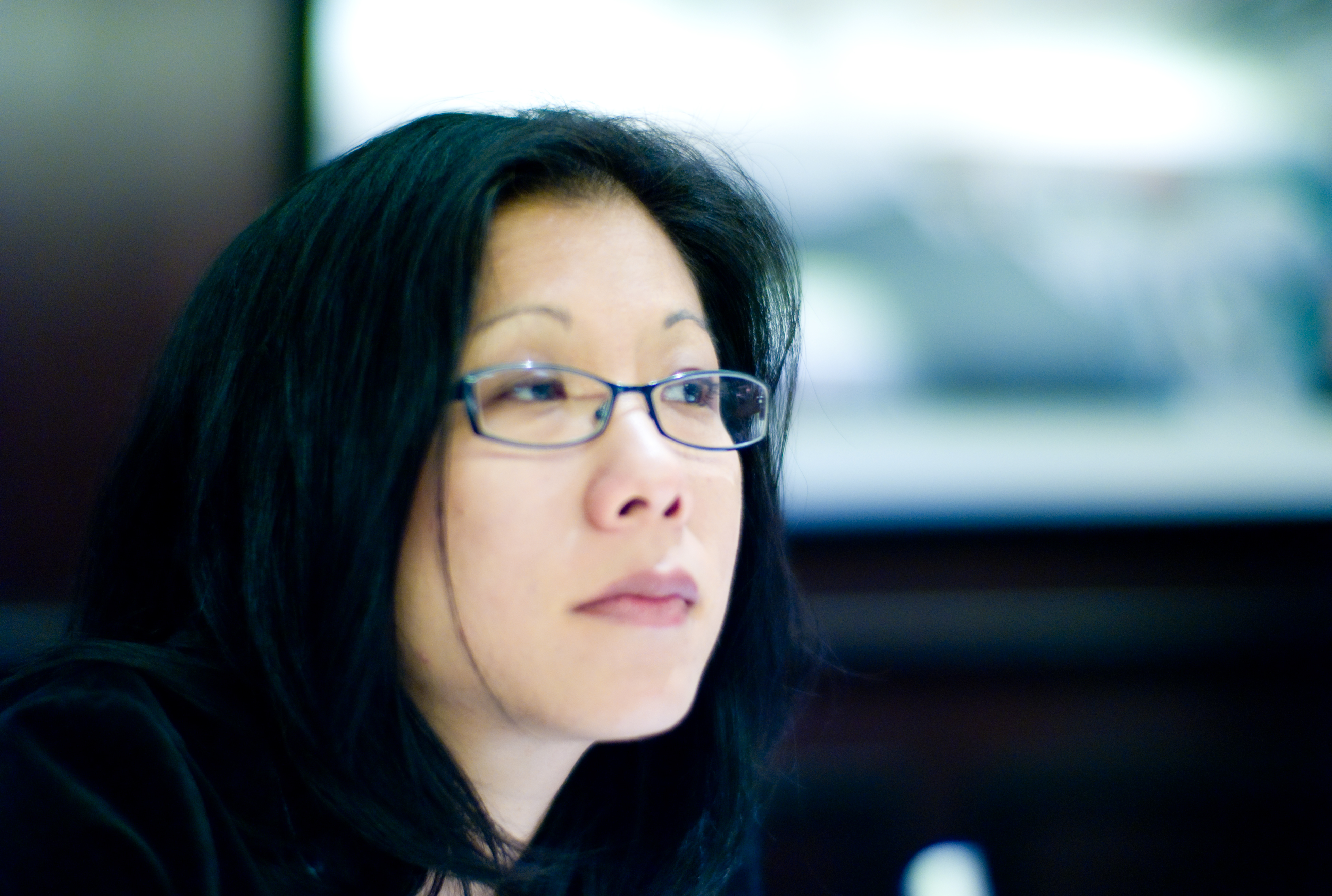 Mizuko Ito